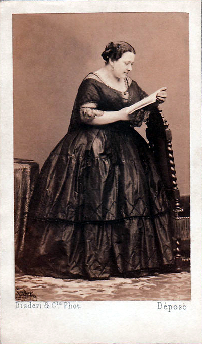 Adolphe Eugène Disderi (1810-1890) - The Italian contralto Opera singer Marietta Alboni (1826-1894).